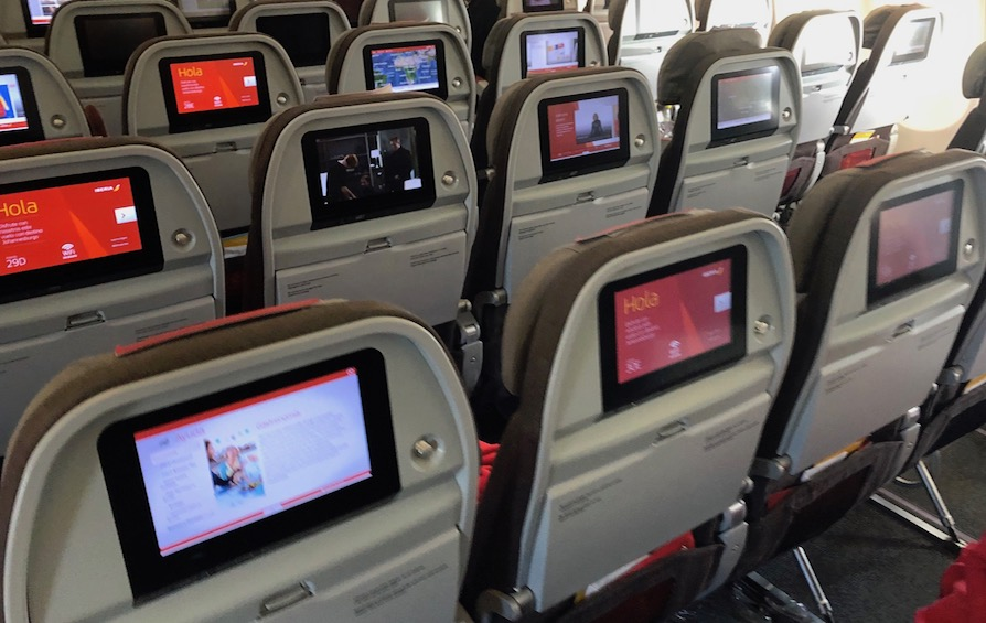 Example of economy class of Iberia long-distance airplanes with individual screens